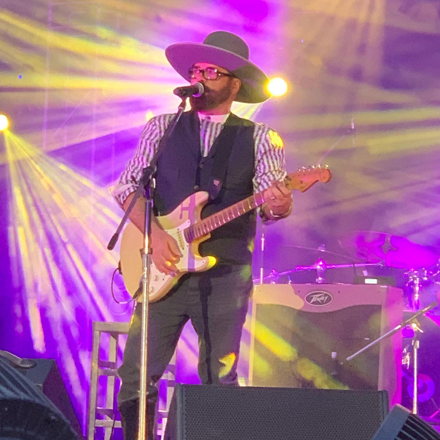 Andrew Farriss performing at Gympie Muster